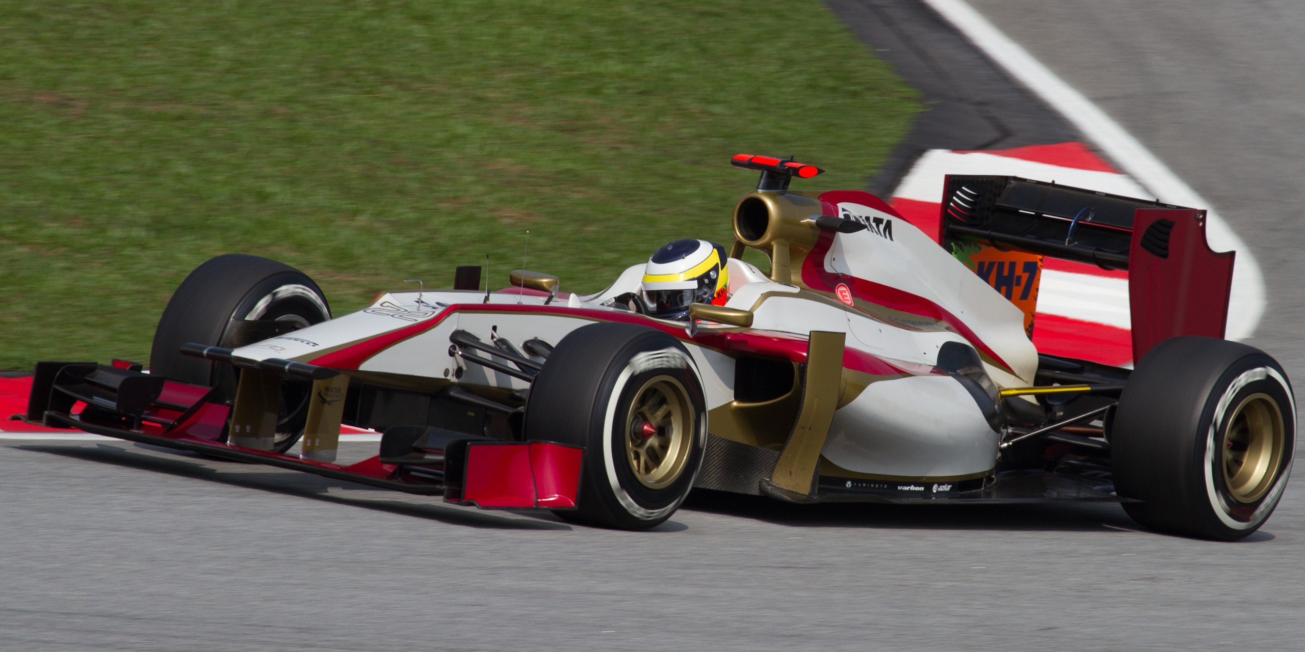 Formula One 2012 Rd.2 Malaysian GP: Pedro de la Rosa (HRT) during the qualify session on Saturday.